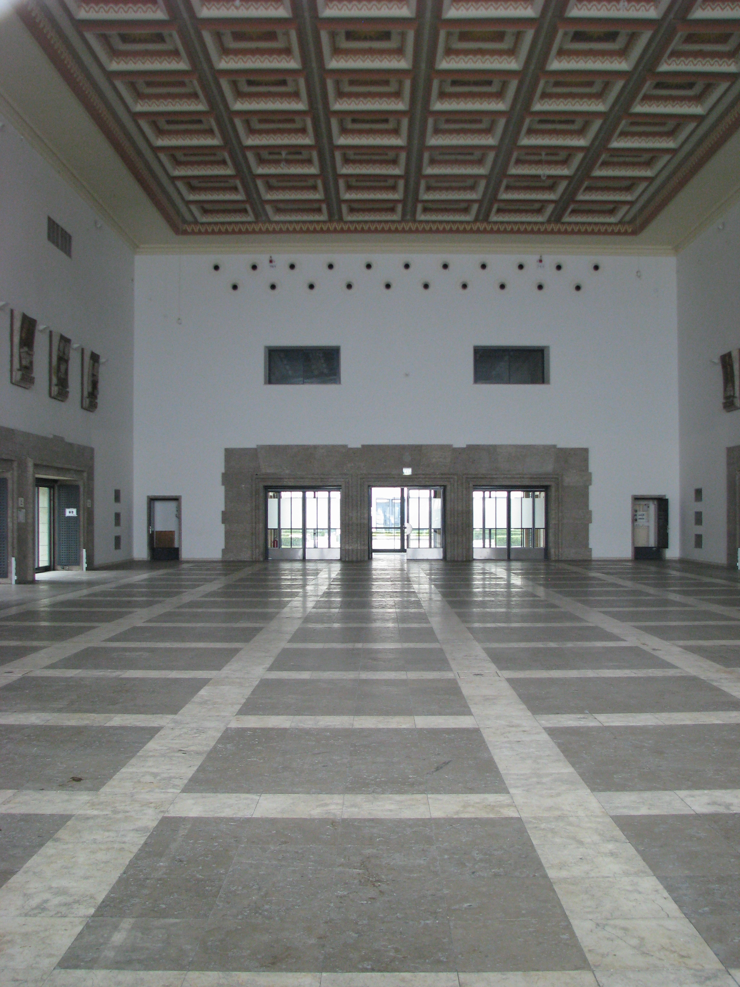 Wappenhalle former Munich Airport Riem